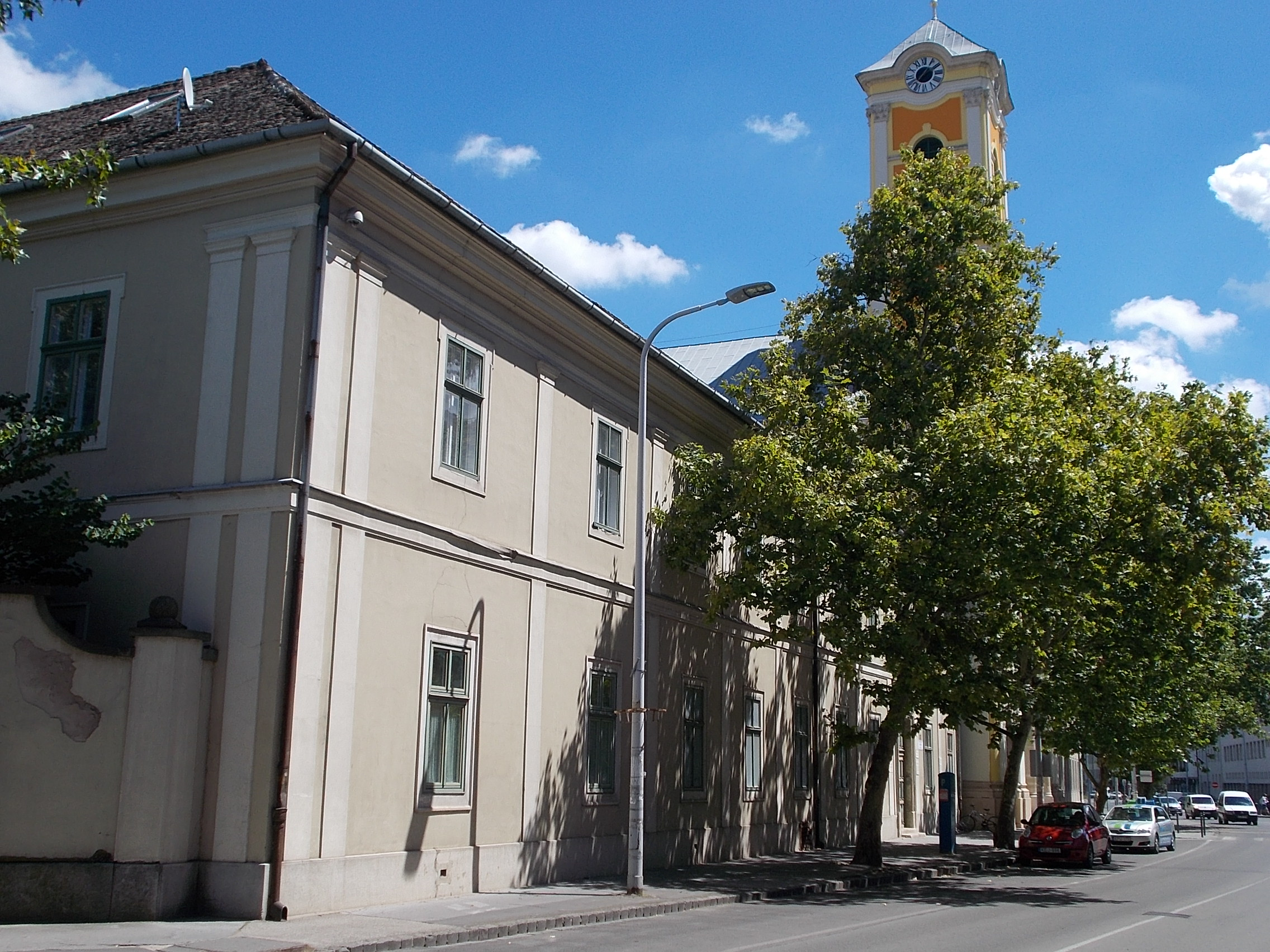 Piarist monastery and college. - Piaristák tere, 1 Jókai Street, Bethlenváros, Kecskemét, Bács-Kiskun County, Hungary.